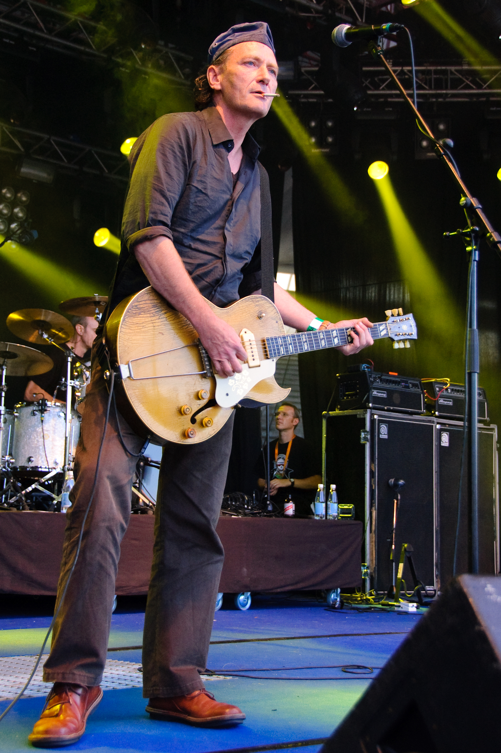 Guitarist Geordie Walker of Killing Joke performing at the Ilosaarirock festival in Joensuu, Finland.